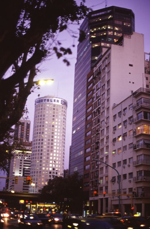 The Prourban Building (known among some locals as "the hair curler"), on Avenida del Libertador, Buenos Aires. The opaque glass building to the right is the Chacofi II building (Av. del Libertador 602), designed by Raúl Lier and Alberto Tonconogy.